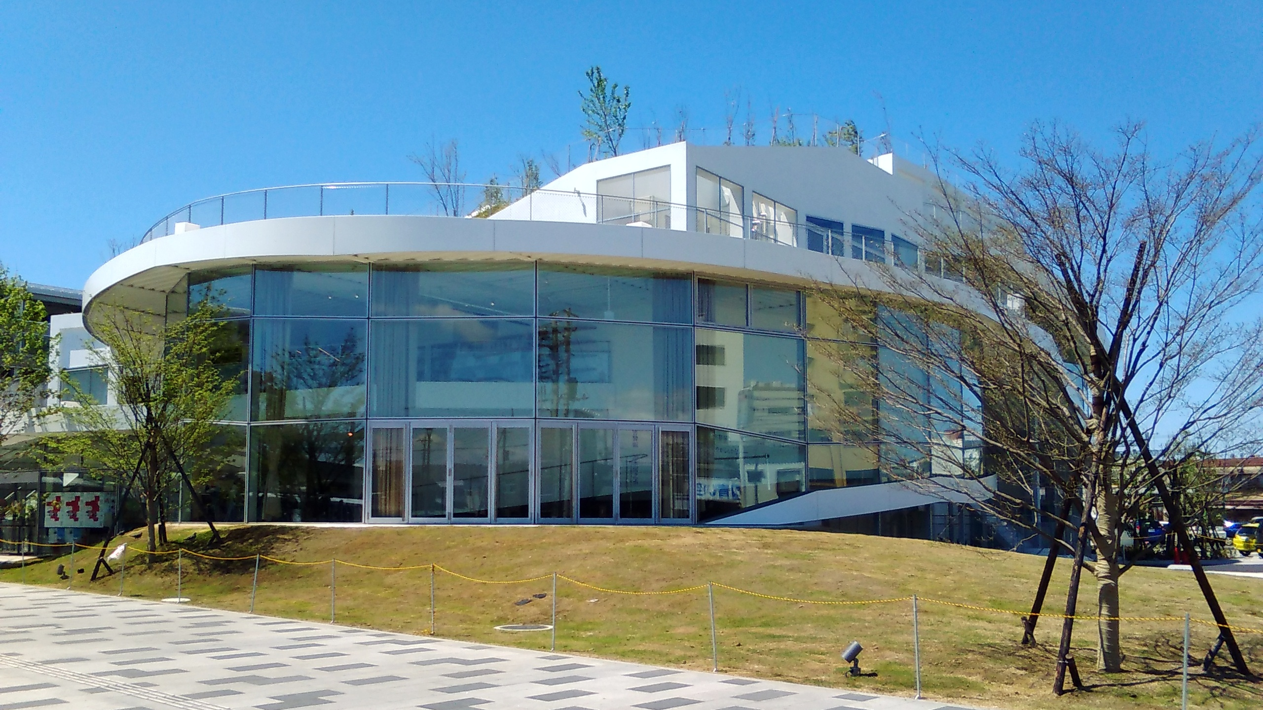 ART MUSEUM & LIBRARY, OTA (north side) in Ota, Gunma, Japan.